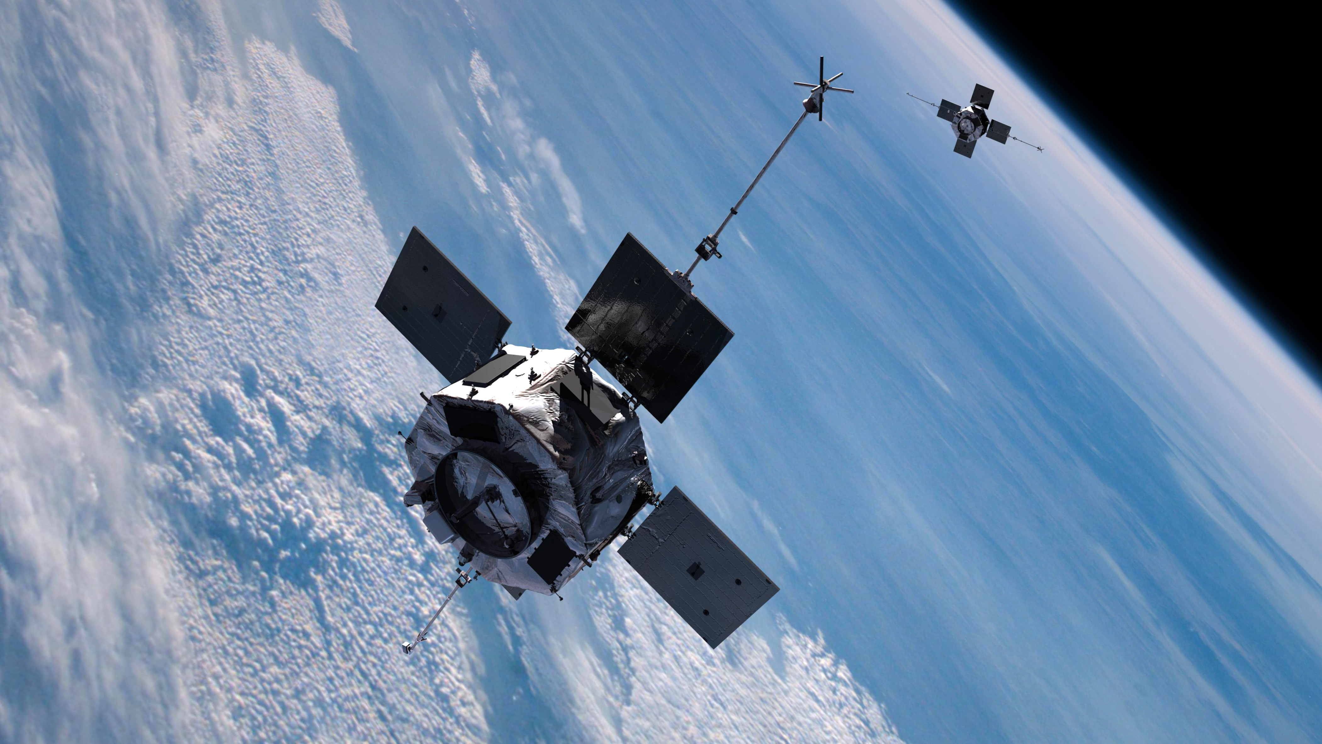 The identical Radiation Belt Storm Probes will follow similar orbits that will take them through both the inner and outer radiation belts. The highly elliptical orbits range from a minimum altitude of approximately 373 miles (600 kilometers) to a maximum altitude of approximately 23,000 miles (37,000 kilometers).